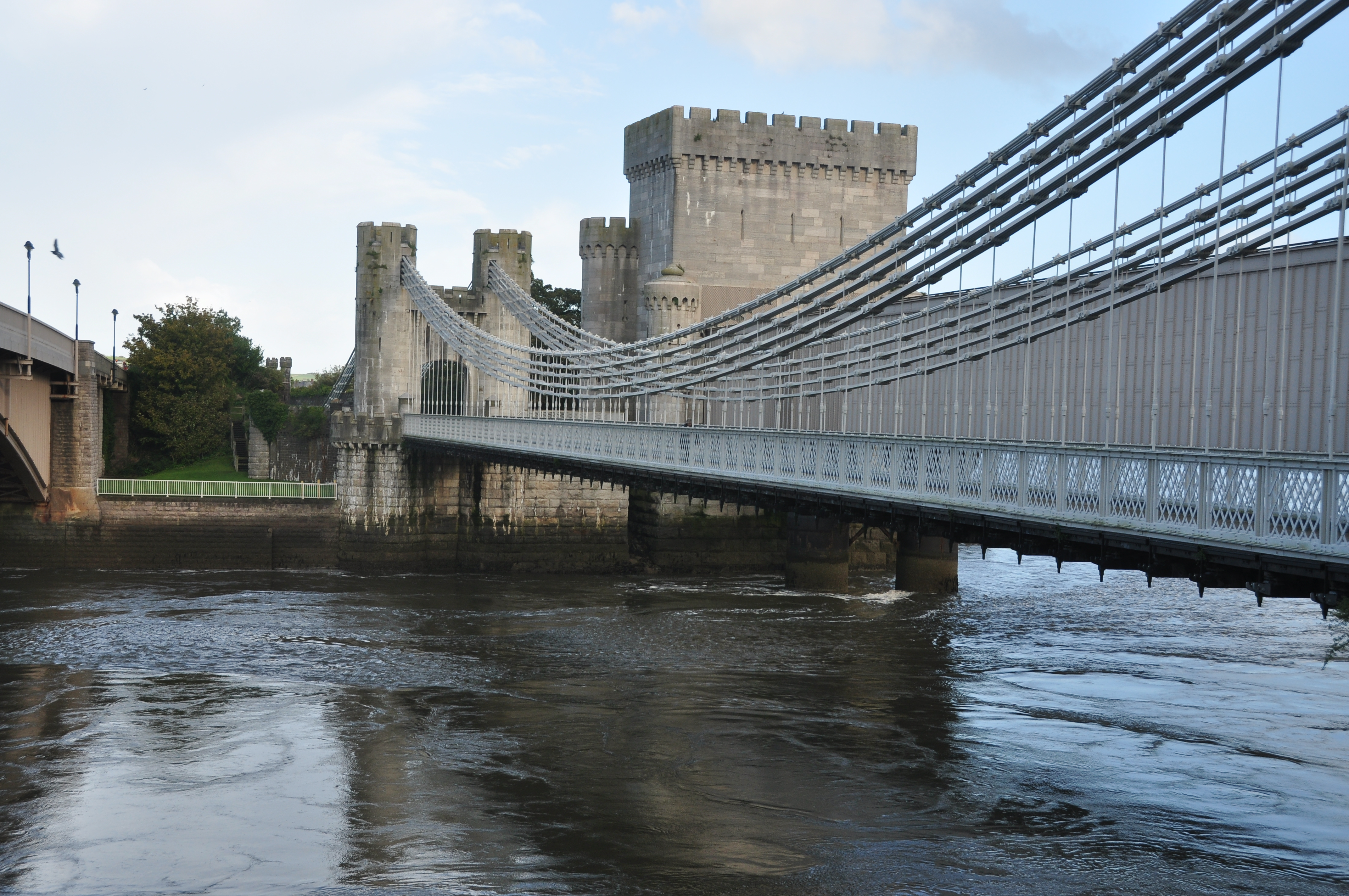 Conwy Suspension Bridge